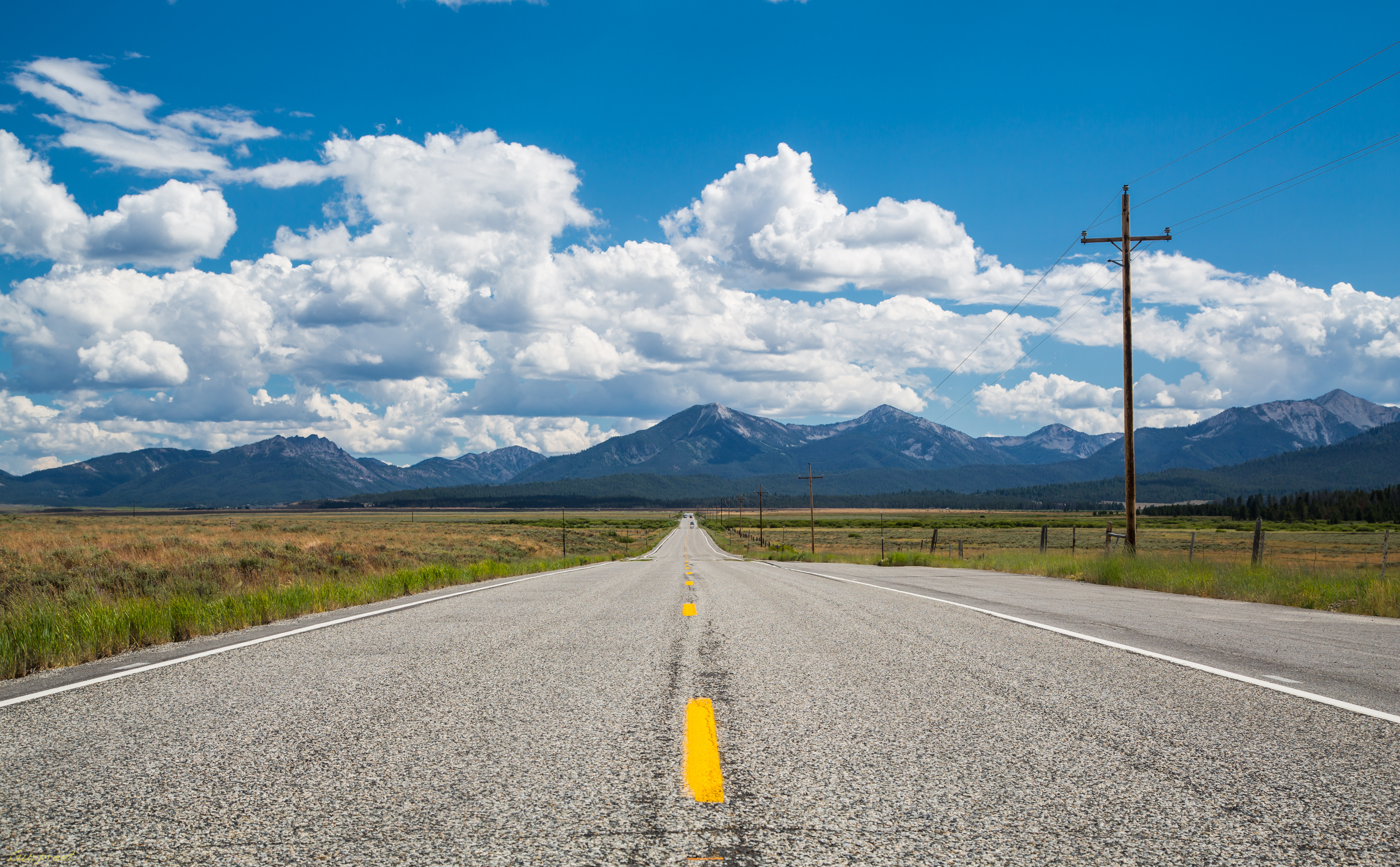 Looking south on Idaho State Highway 75 in the Sawtooth Valley of Sawtooth National Recreation Area